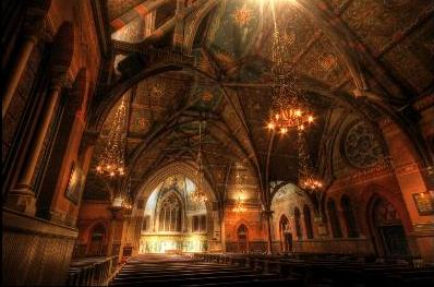 Sage Chapel